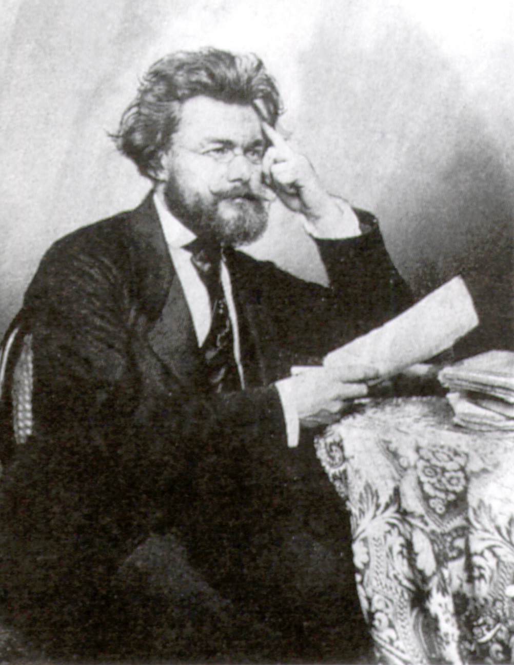 Rudolf Theodor Simler, founder of Swiss Alpine Club